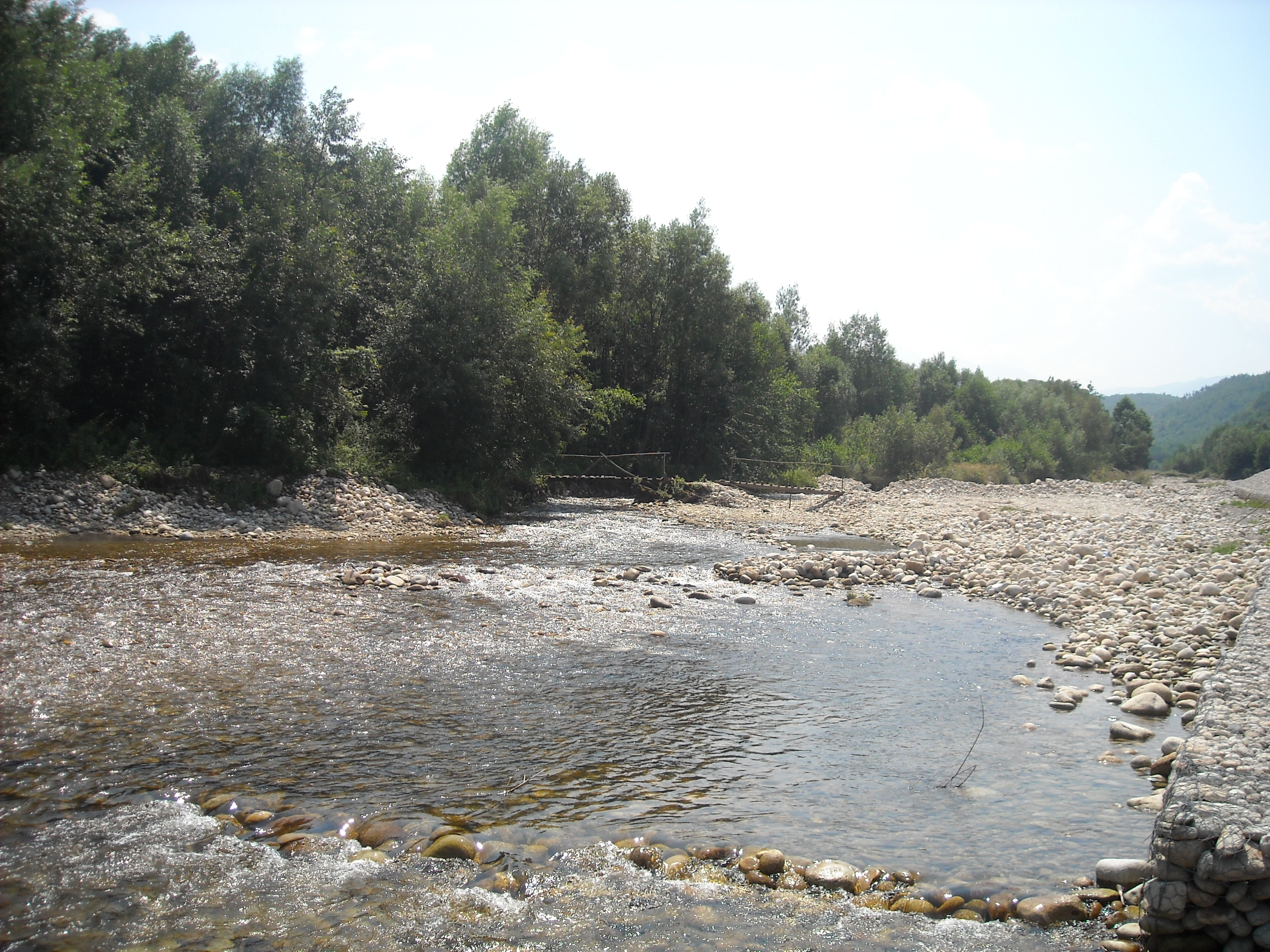 Sibişel River (Strei) near the Sânpetru Mesozoic Formation, Romania